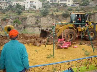 Playground destroyed to make room for construction of the confiscation wall.